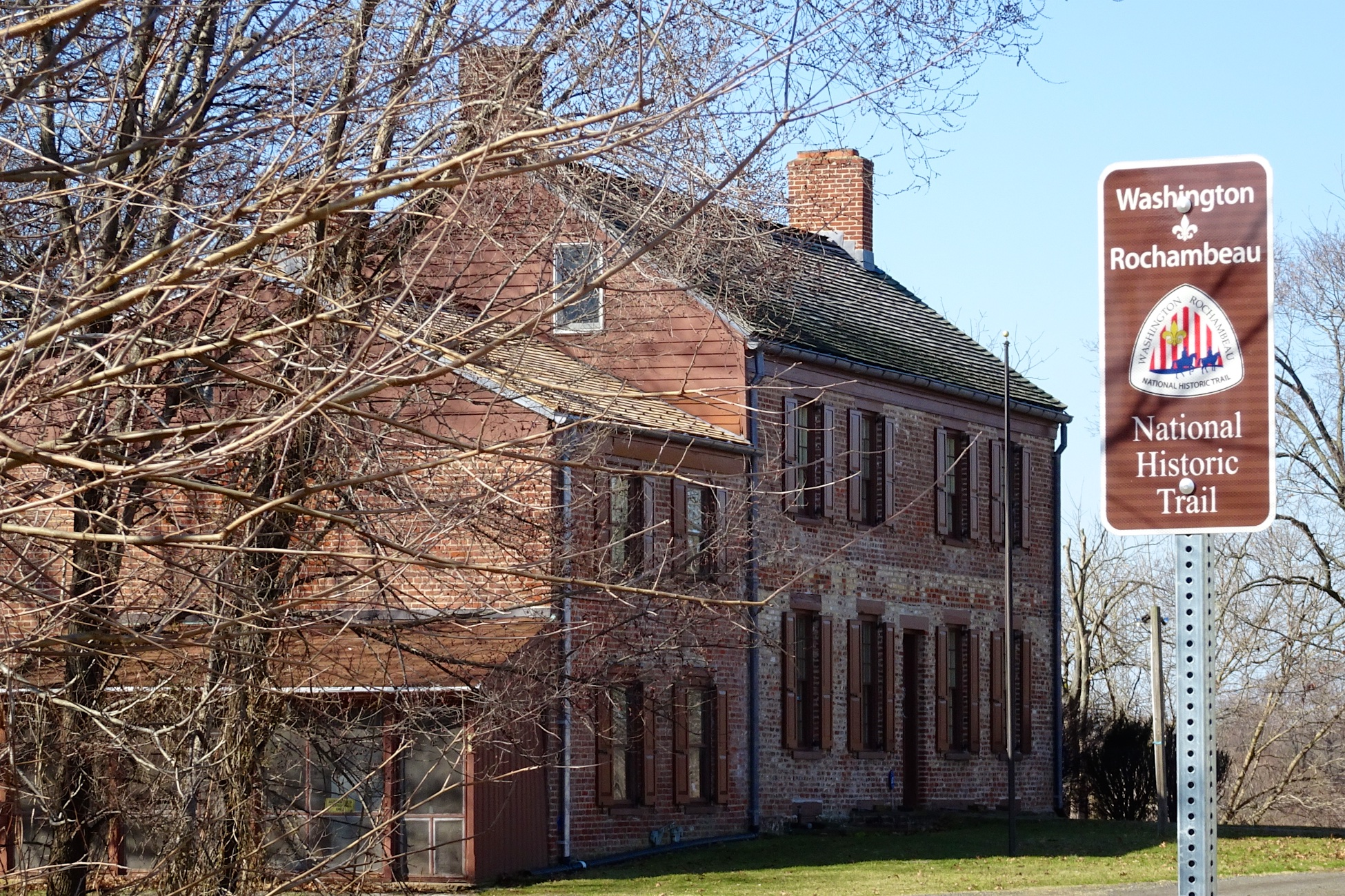 The Van Veghten House in Finderne, New Jersey was along the Washington–Rochambeau Revolutionary Route of 1781.